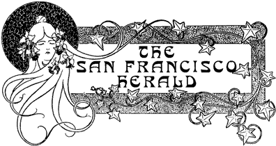 Artist/creator: James Dylan